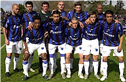 Apertura 2008